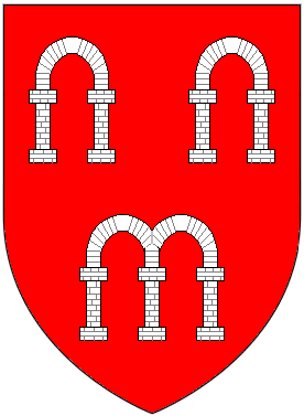 Armorials of Arches family of Arches Manor, East Hendred, Berkshire and of another branch at Waddesdon (Eythrope and Cranwell manors) and Little Kimble, Bucks. Gules, three arches argent. These arms were later quartered by the Dinham family (Barons Dinham), heirs of the Arches of Eythrope, and by the Bourchier family (Earls of Bath), heirs of the Dinhams. Visible quartered by Dinham in stained glass in Bampton Church, Devon; sculpted quartered by Bourchier in stone on Tudor gatehouse of Tawstock Court, Devon (d.1501); on the monumental brass of Edith Dinham, sister of the last Lord Dinham, Christ's College Chapel, Cambridge; In the Duke of Bedford's family chapel at Chenies, Bucks., quartered on the monument to Lady Frances Bourchier (1587-1612) (See Heraldry of the Bedford Chapel, [